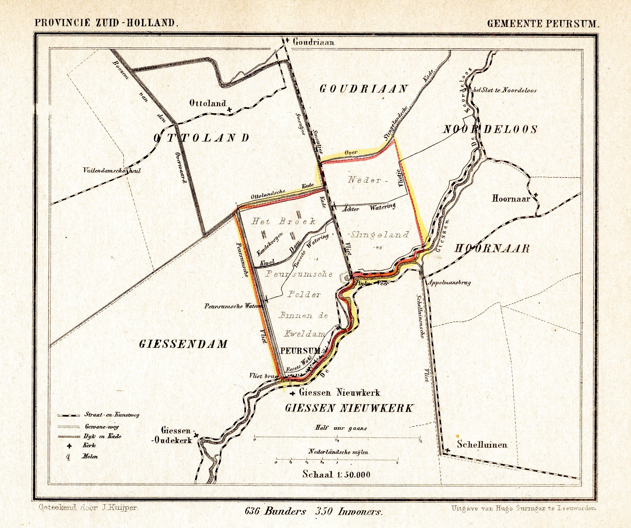 Map from 1865-1870 of the former municipality of Peursum (25 km ESE of Rotterdam, Province of South Holland, Netherlands). Peursum is currently a part of the municipality of Giessenlanden.